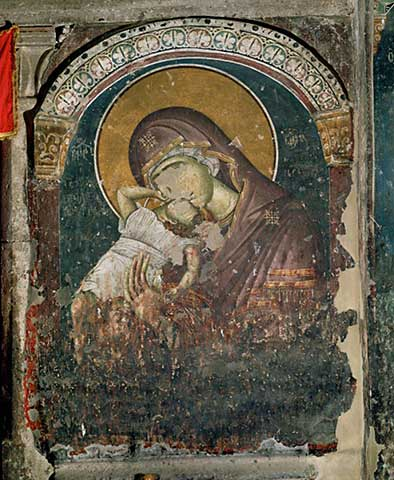 1316/18.-"Mother of God Pelagonitissa".-Staro Nagoricino (Macedonia), St. George's Church, Iconostasis.